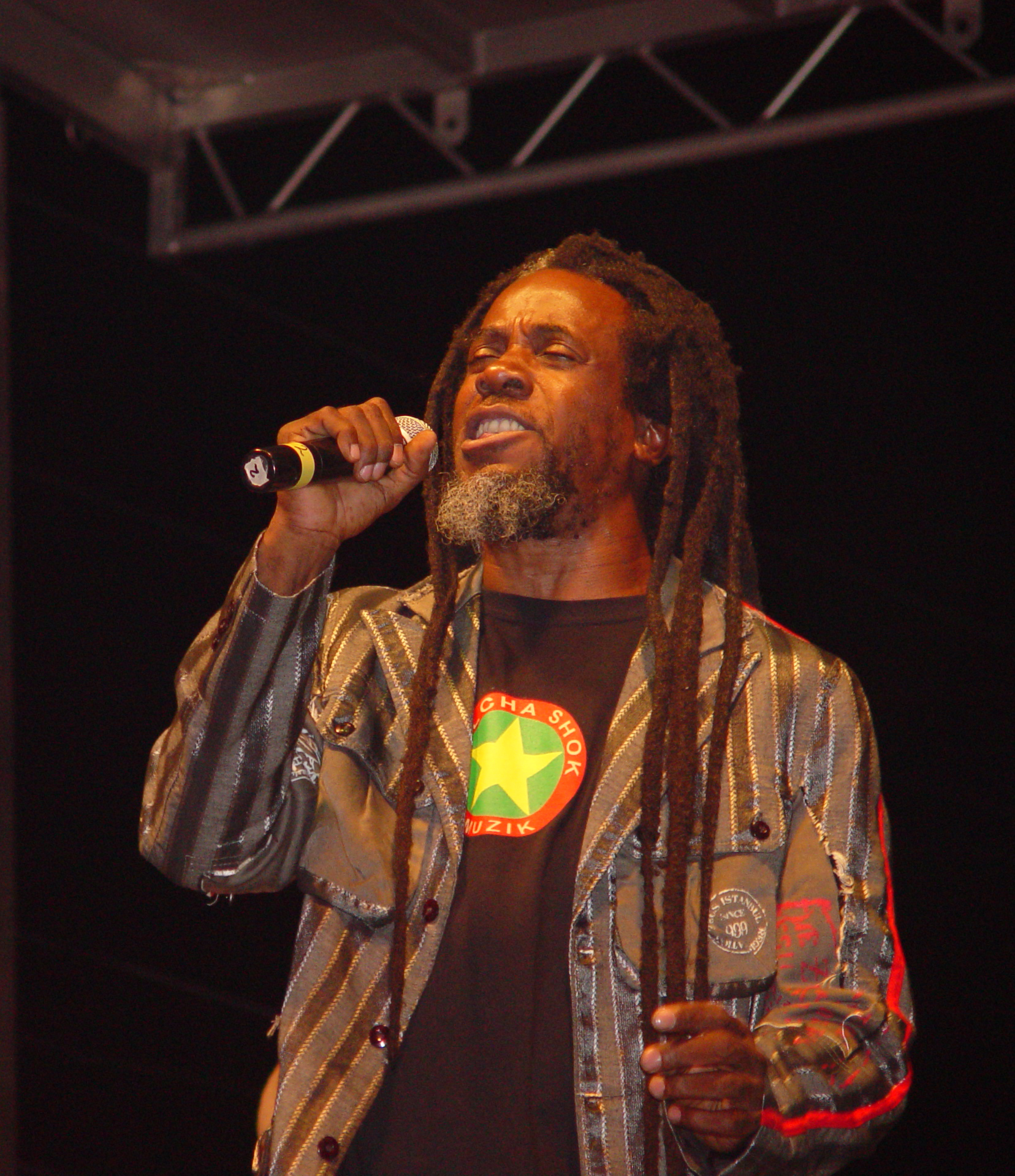 Half Pint performing at a tribute show for the late Dennis Brown. This was held on May 22, 2012 at the residence of Brown. Several reggae artiste also performed that night.